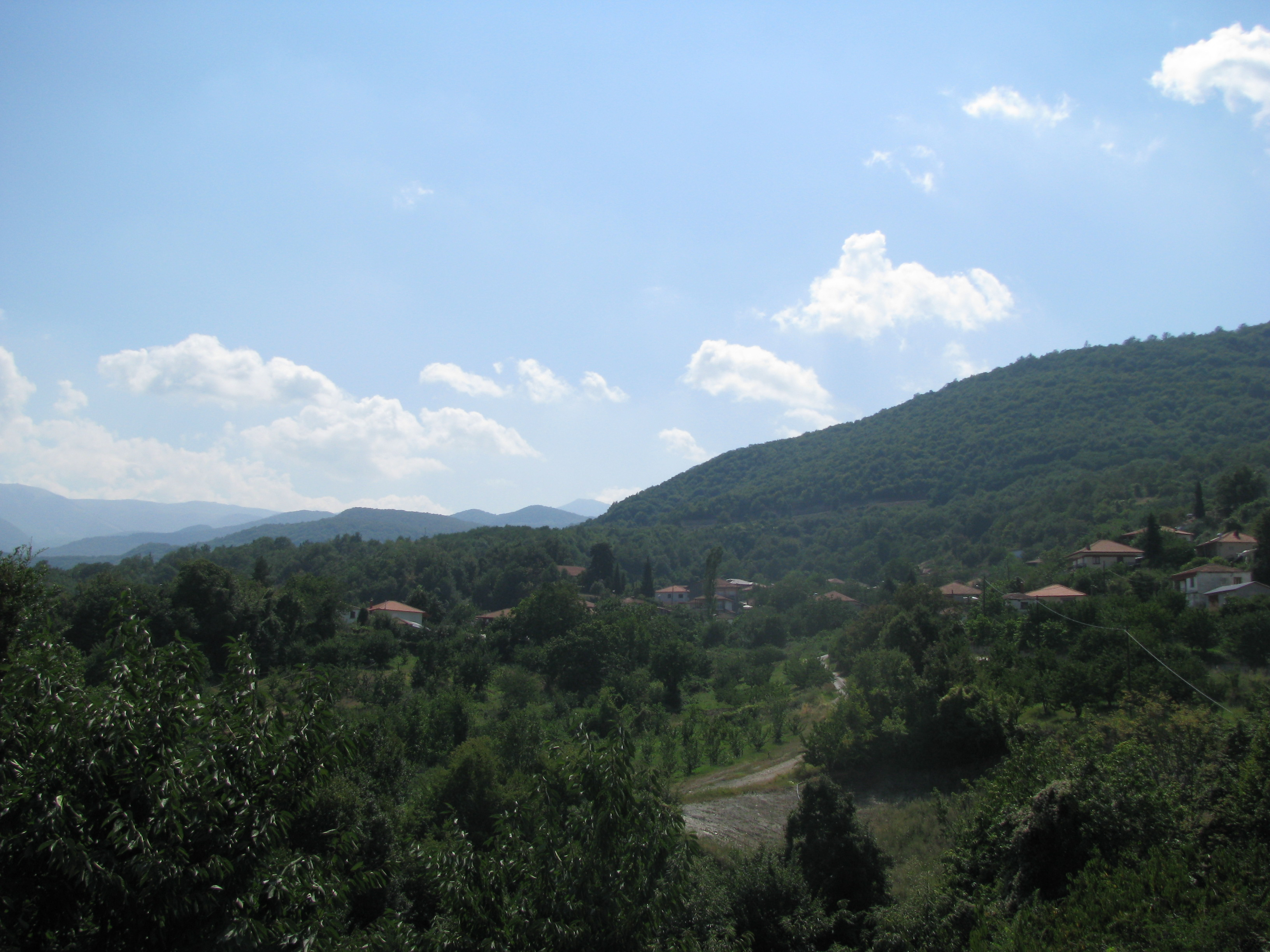 Panorama of Oshliani or Agia Fotini, Edessa, Greece